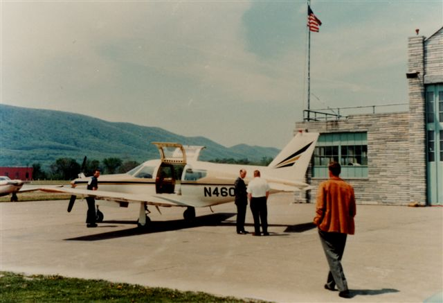 Only known picture of Comanche PA33 on ground. The picture was taken at the Lycoming Hangar in Williamsport PA